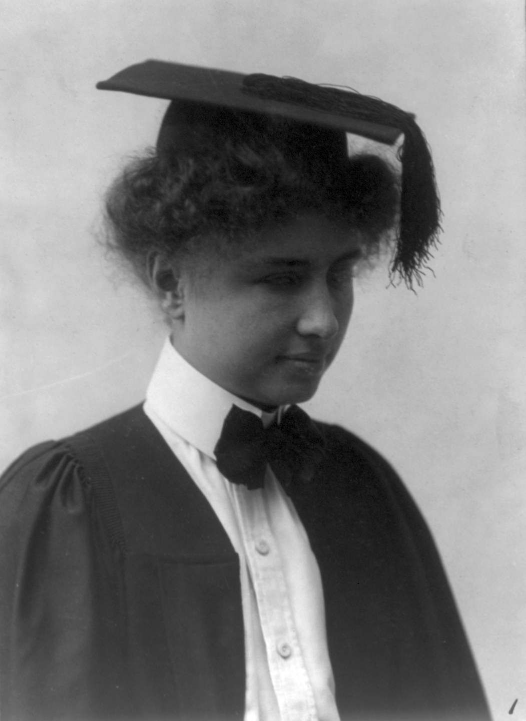 Helen Keller wearing graduation cap and gown. Helen learned a lot from going to school. She even wrote a book during the time she was in school. The book was called "The Story of My Life." She graduated in 1904.